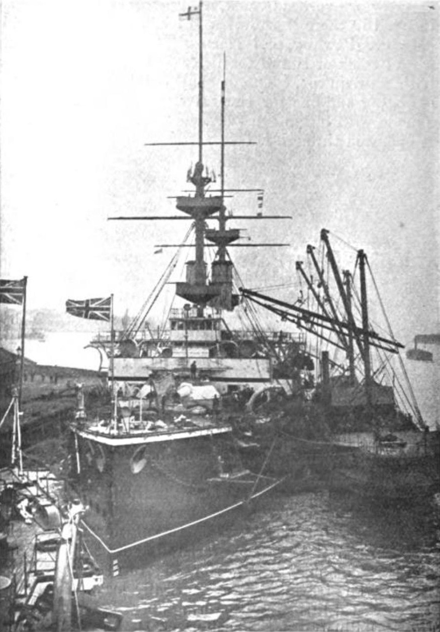 "Fig. 190 illustrates the coaling of H.M.S. Majestic with four Temperley patent portable transporters."